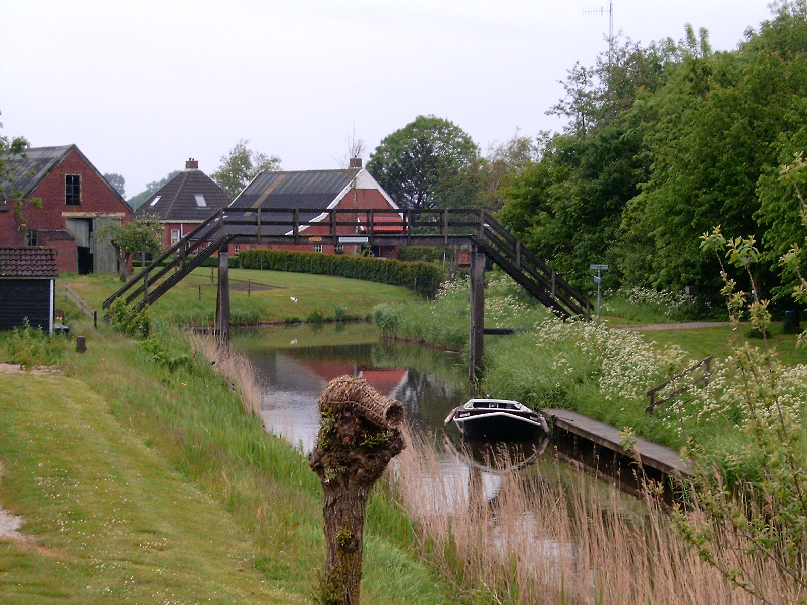 Typical Bridge in the province of Groningen, The Netherlands Typical Bridge in the province of Groningen, The Netherlands